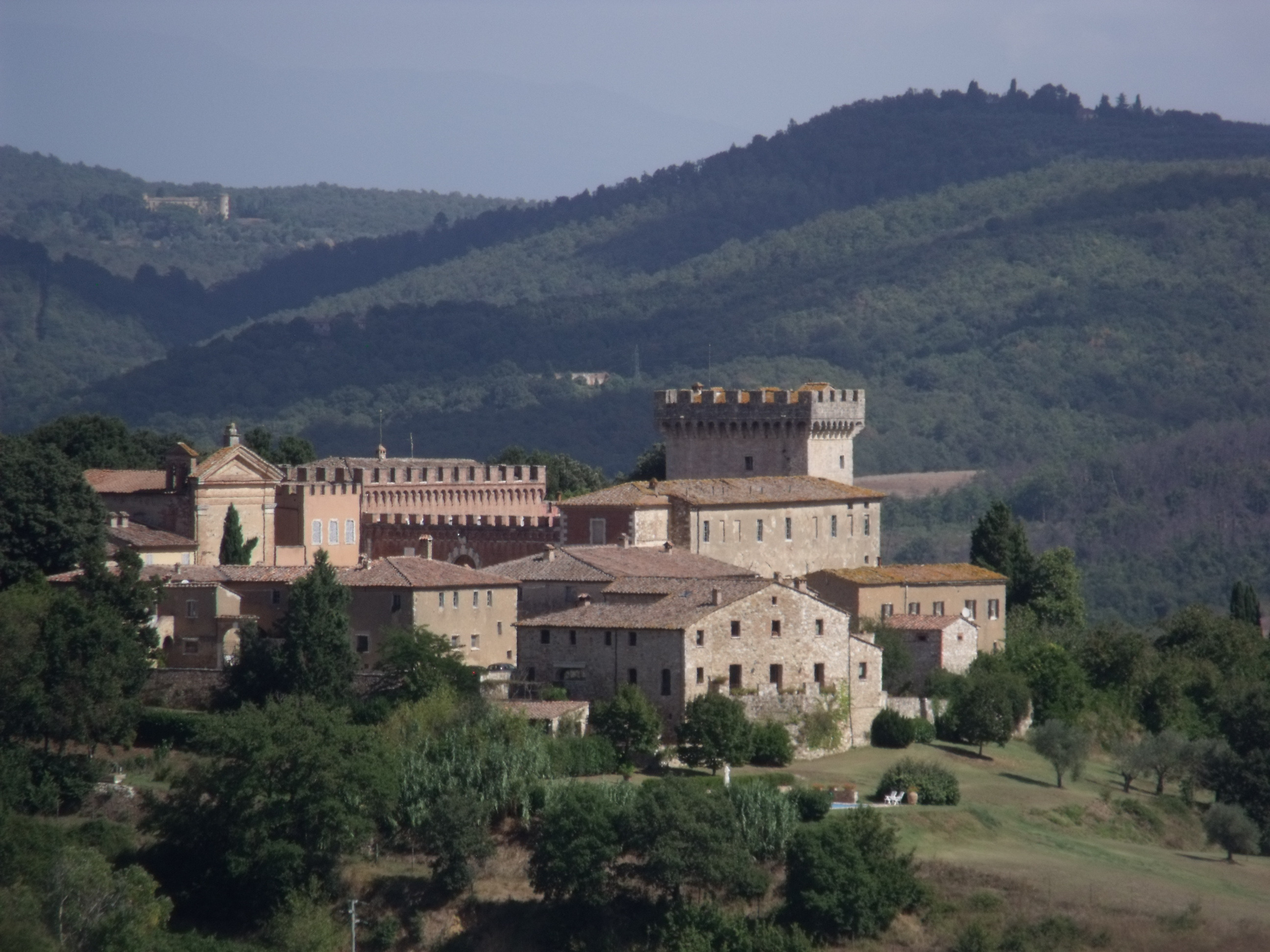 San Gimignanello, Castle and hamlet of Rapolano Terme, Crete Senesi, Province of Siena, Tuscany, Italy